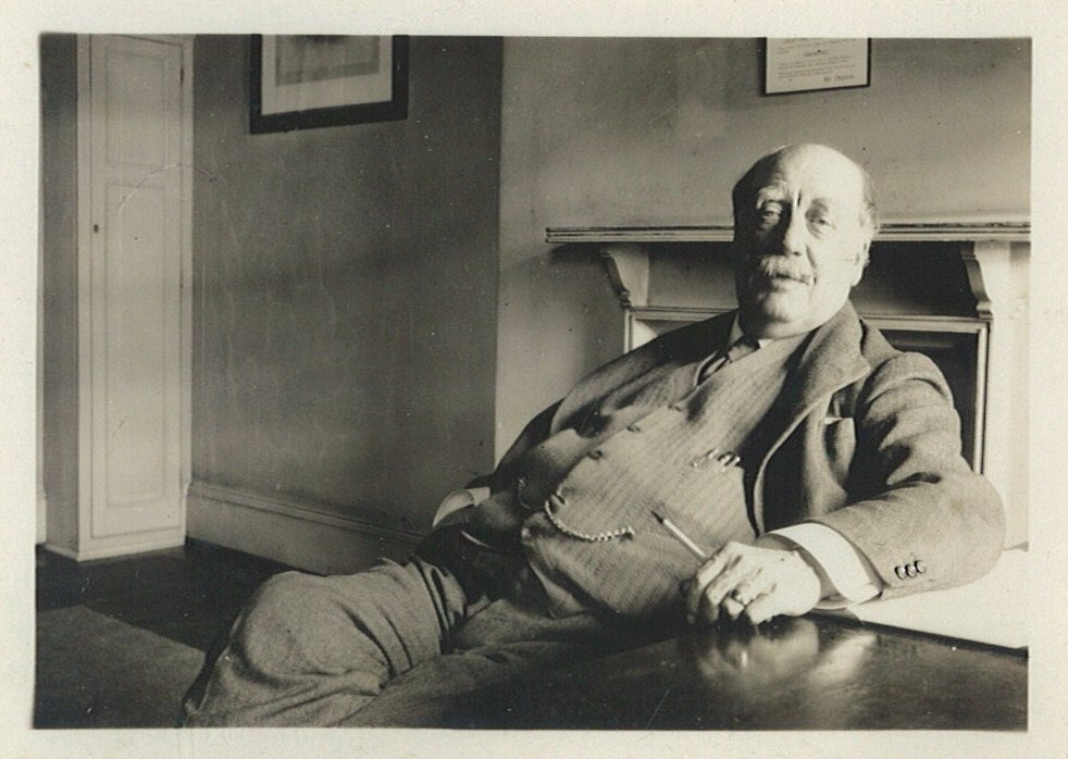 Maker: [unknown] Date: [1933] Catalogue ref: TCM 14/1/8 Description: John Warriner, professor, examiner and member of the board, Trinity College of Music 1900s-1930s. Chairman of the corporation 1930-34.